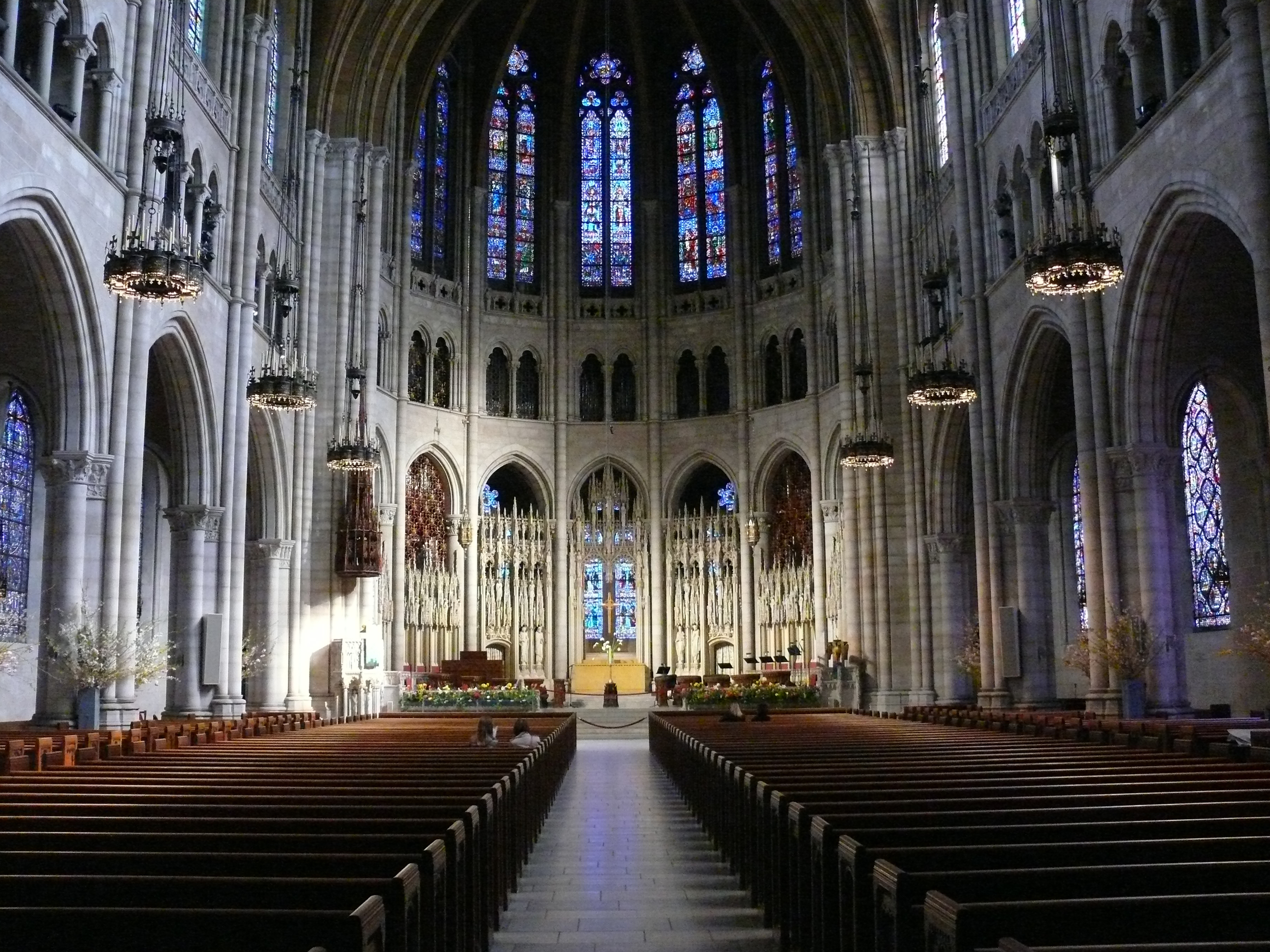 Interior of Riverside Church. Riverside Church, in the City of New York is an interdenominational American Baptist and United Church of Christ church in New York City, famous for its elaborate Neo-Gothic architecture and its history of social justice.